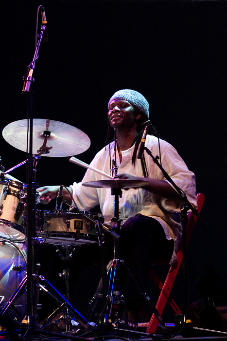 Hamid Drake at moers festival 2006 own photo, june 4, 2006- photo: nomo/michael hoefner